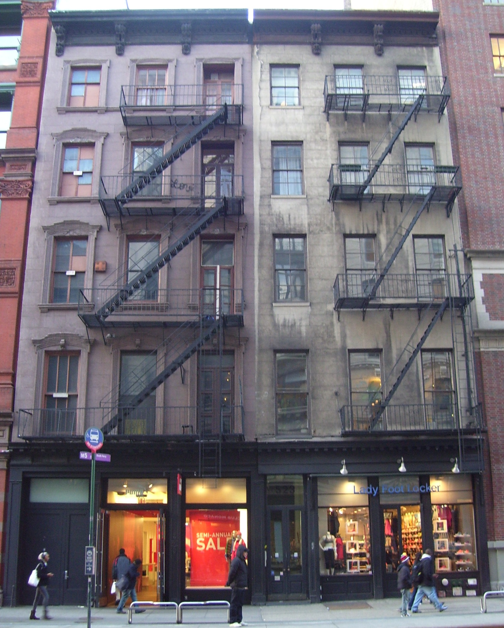 521 and 523 Broadway, between Spring and Broome Streets in the SoHo neighborhood of Manhattan, New York City, were built in 1853-54 as part of the northern wing of the St. Nicholas Hotel complex, which extended from 507 to 527 Broadway. These two buildings, which were designed by J. B. Snook or Griffith Thomas, are the only remnants of the hotel. They are It located within the SoHo - Cast Iron Historic District. (Source: "NYCLPC SoHo - Cast-Iron Historic District Designation Report")